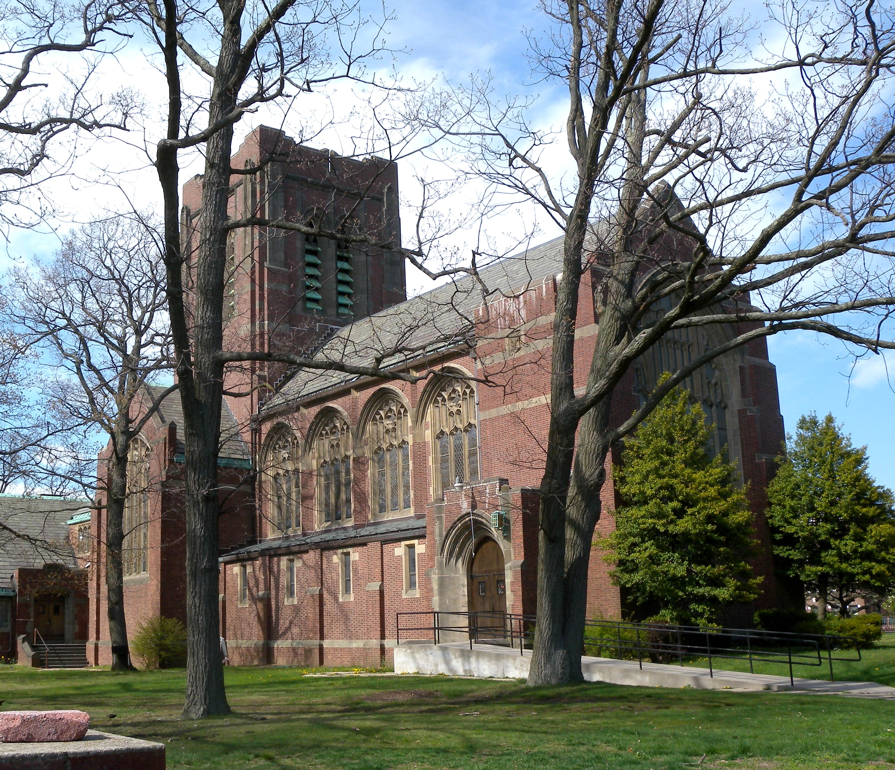 Looking northeast at First Presbyterian Church of Far Rockaway, originally Sage Memorial Presbyterian Church in Far Rockaway on a sunny early afternoon.